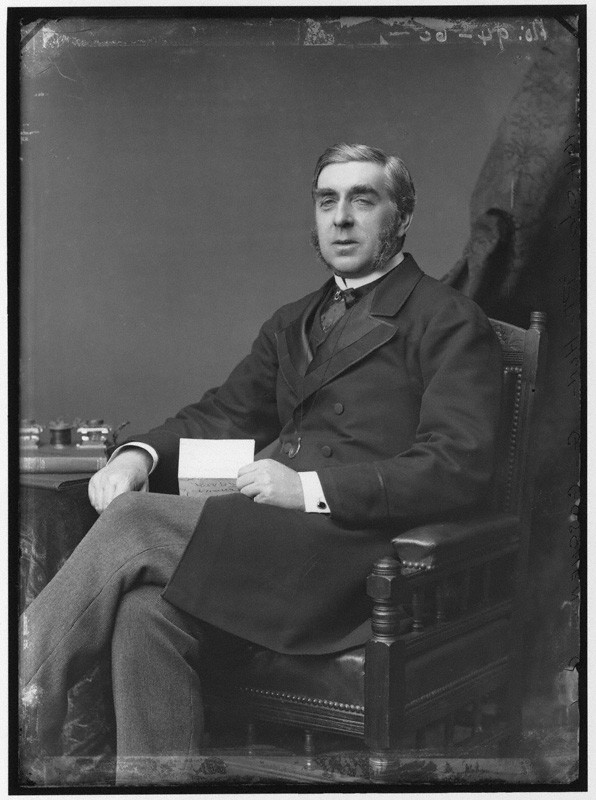 Portait of George Goschen, 1st Viscount Goschen